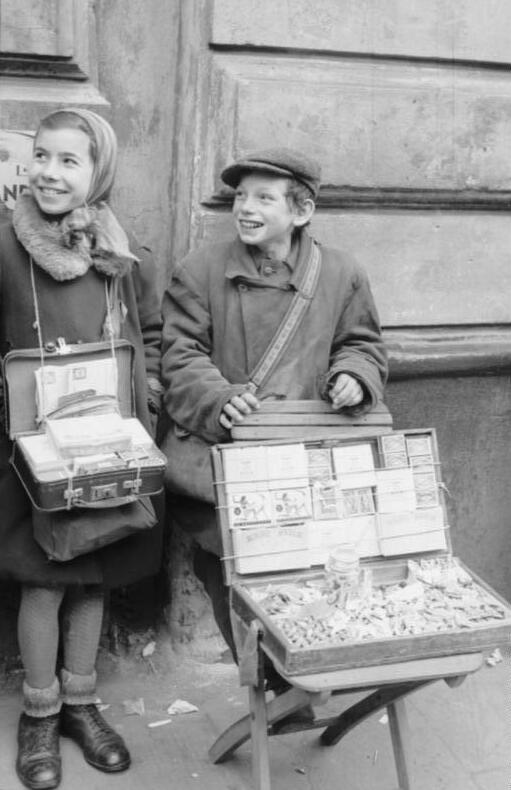 Warsaw Ghetto